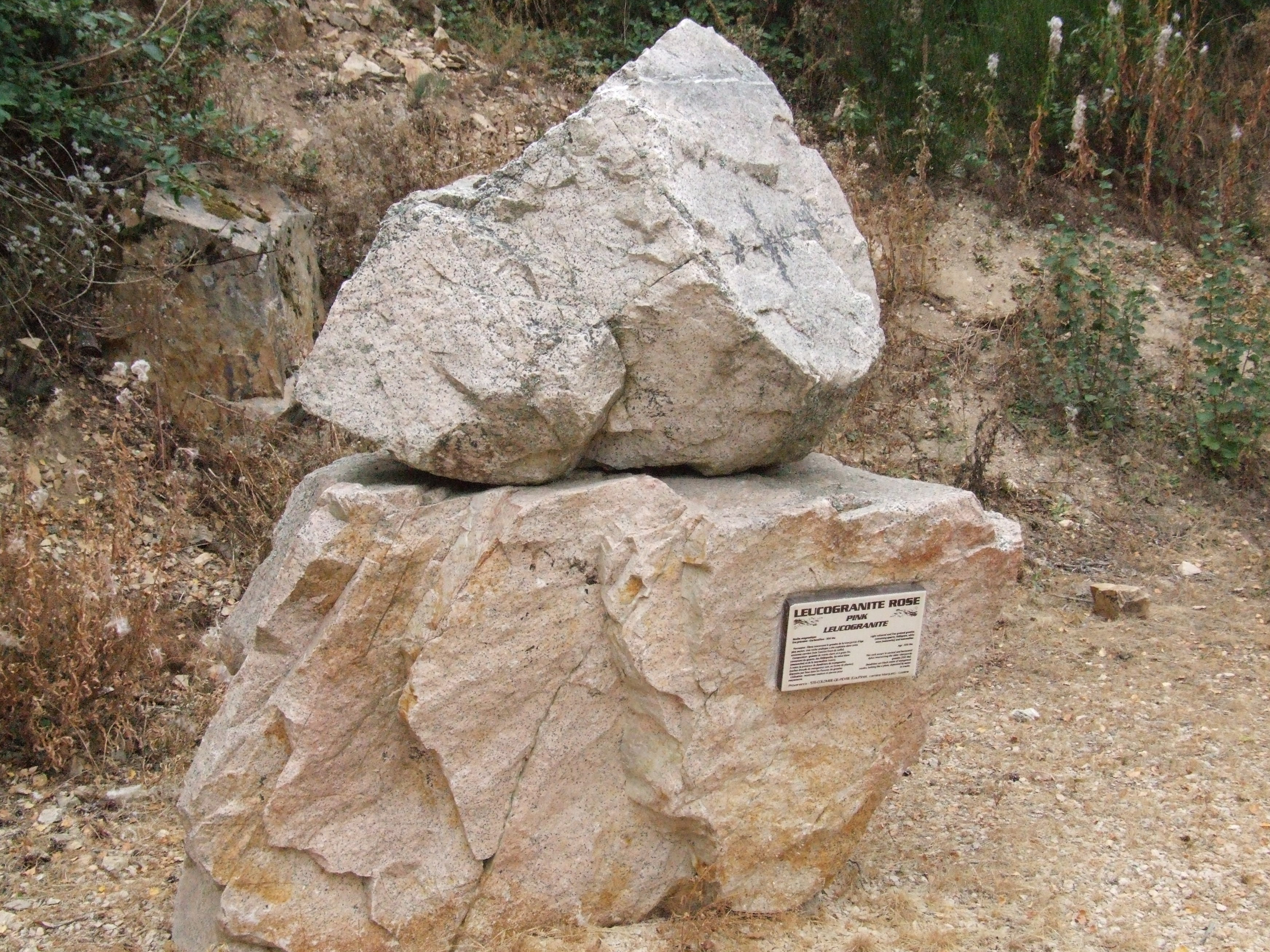 The Géoscope at the motorway service station, La Lozère, displays a collection of rocks found in Lozère. Each has a description. Pink leucogranite Provenance: Ste Colombe de Peyre, Lozère